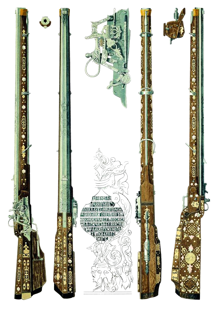 Pishchal of Alexis I of Russia